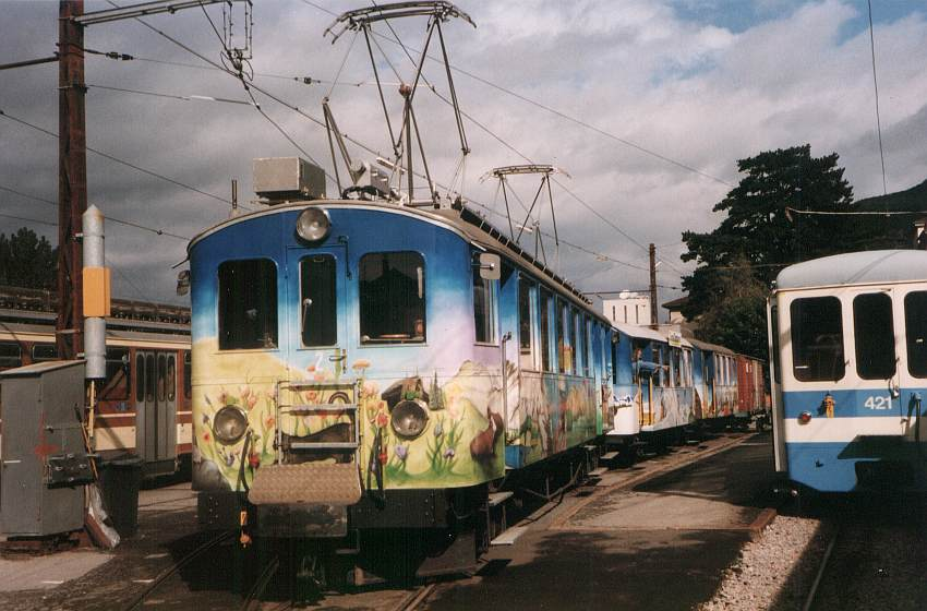 A train of the Aigle-Sepey-Diablerets Railway in Aigle, Switzerland